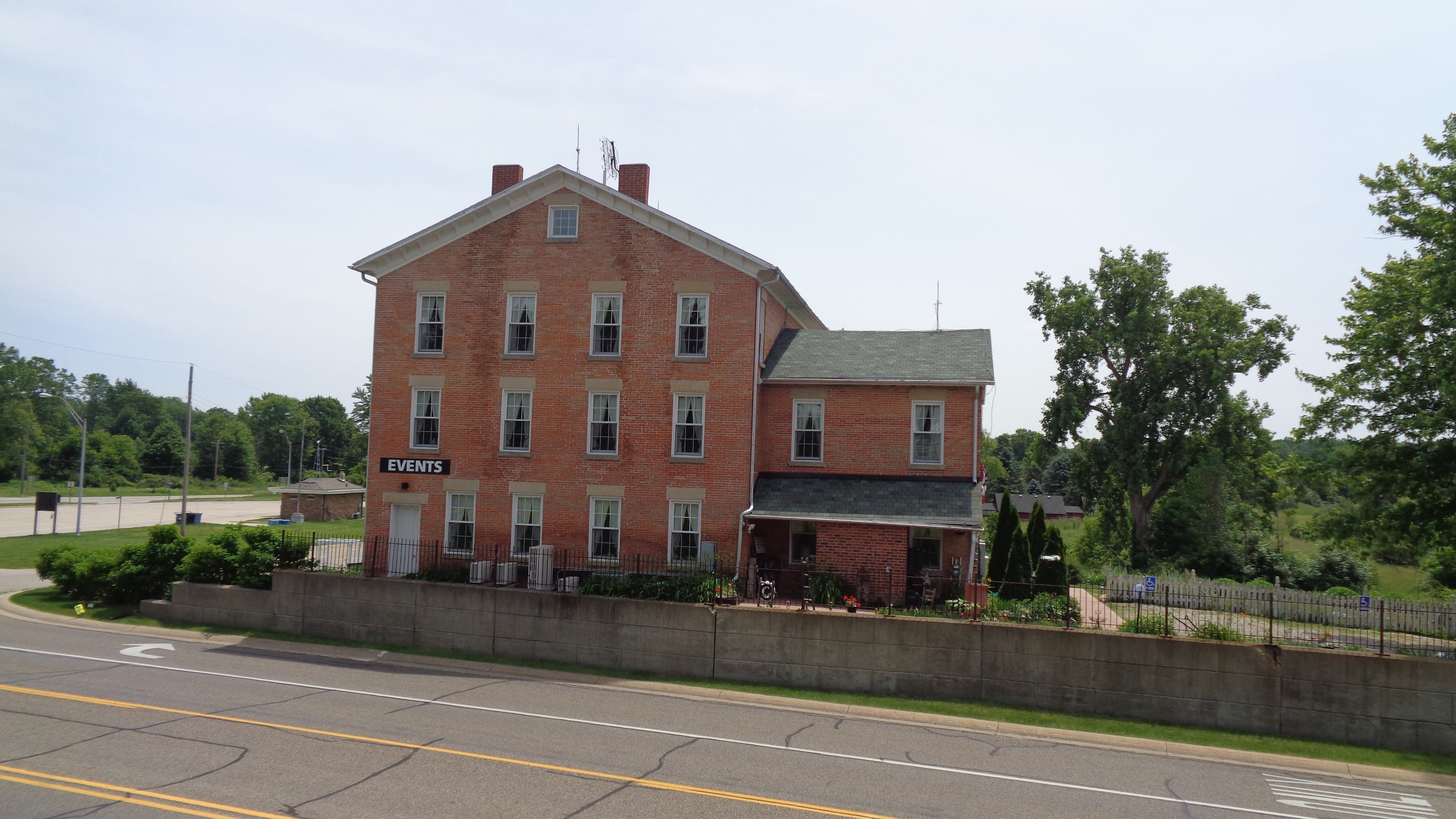 Depicted place: S. Walker's Hotel